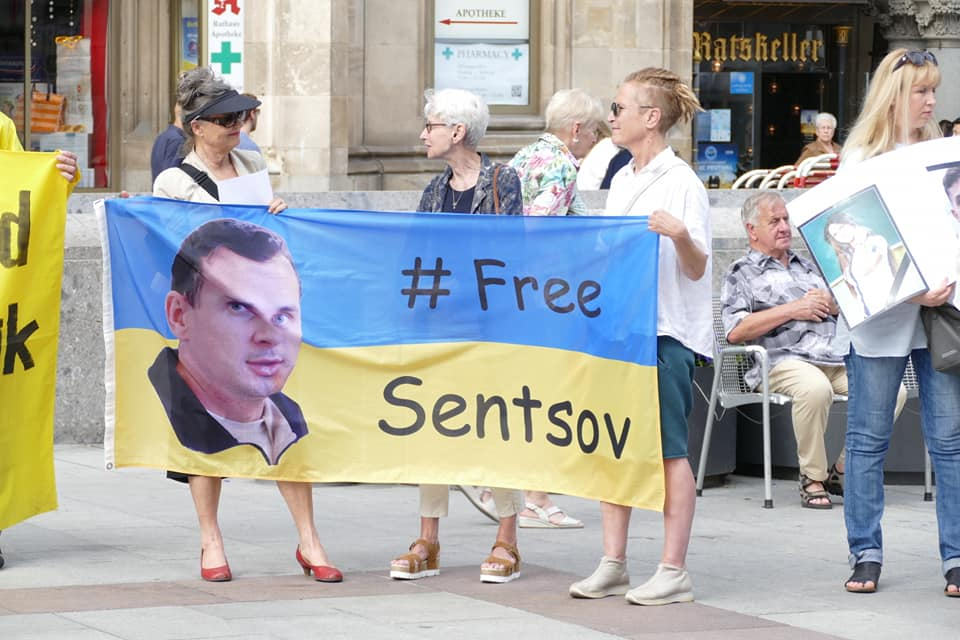 Oleg Gennadyevich Sentsov (Ukrainian: Олег Геннадійович Сенцов, Oleh Hennadiovych Sentsov) is a Ukrainian filmmaker and writer, best known for his 2011 film Gamer. He was arrested by the Russians authorities in Crimea and convicted to 20 years in jail by Russian court on charges of plotting terrorism acts. The conviction was widely described as fabricated or exaggerated. On 14 May 2018, he went on an open-ended hunger strike protesting the incarceration of 65 Ukrainian political prisoners in Russia and demanding their release. On June 3, 2018 in Munich on Marien Platz, the central square of the Bavarian capital, an action was held in support of the Ukrainian director Oleg Sentsov.